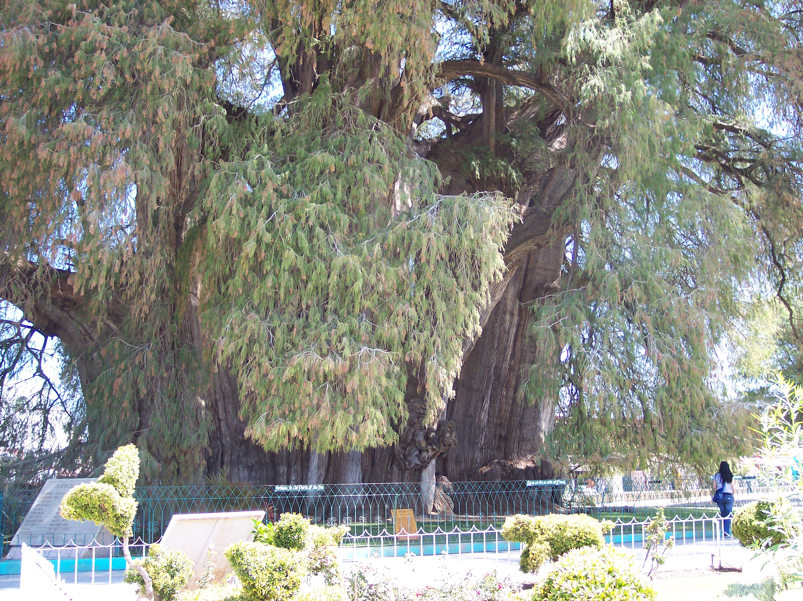 A comparison between the Tule Tree Trunk and one person. Located in: Santa María del Tule, Oaxaca, Mexico.